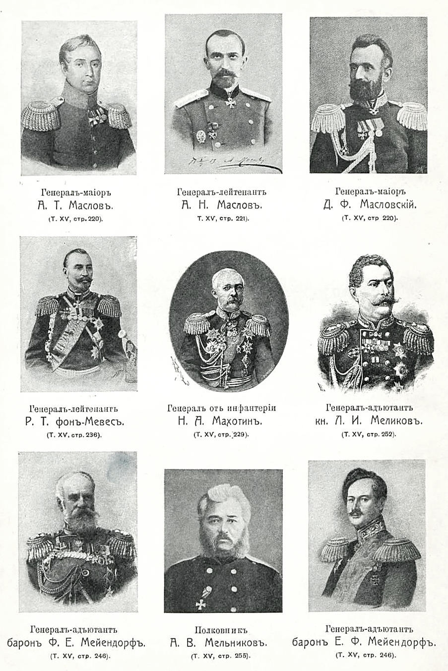 Generals of the Russian Empire